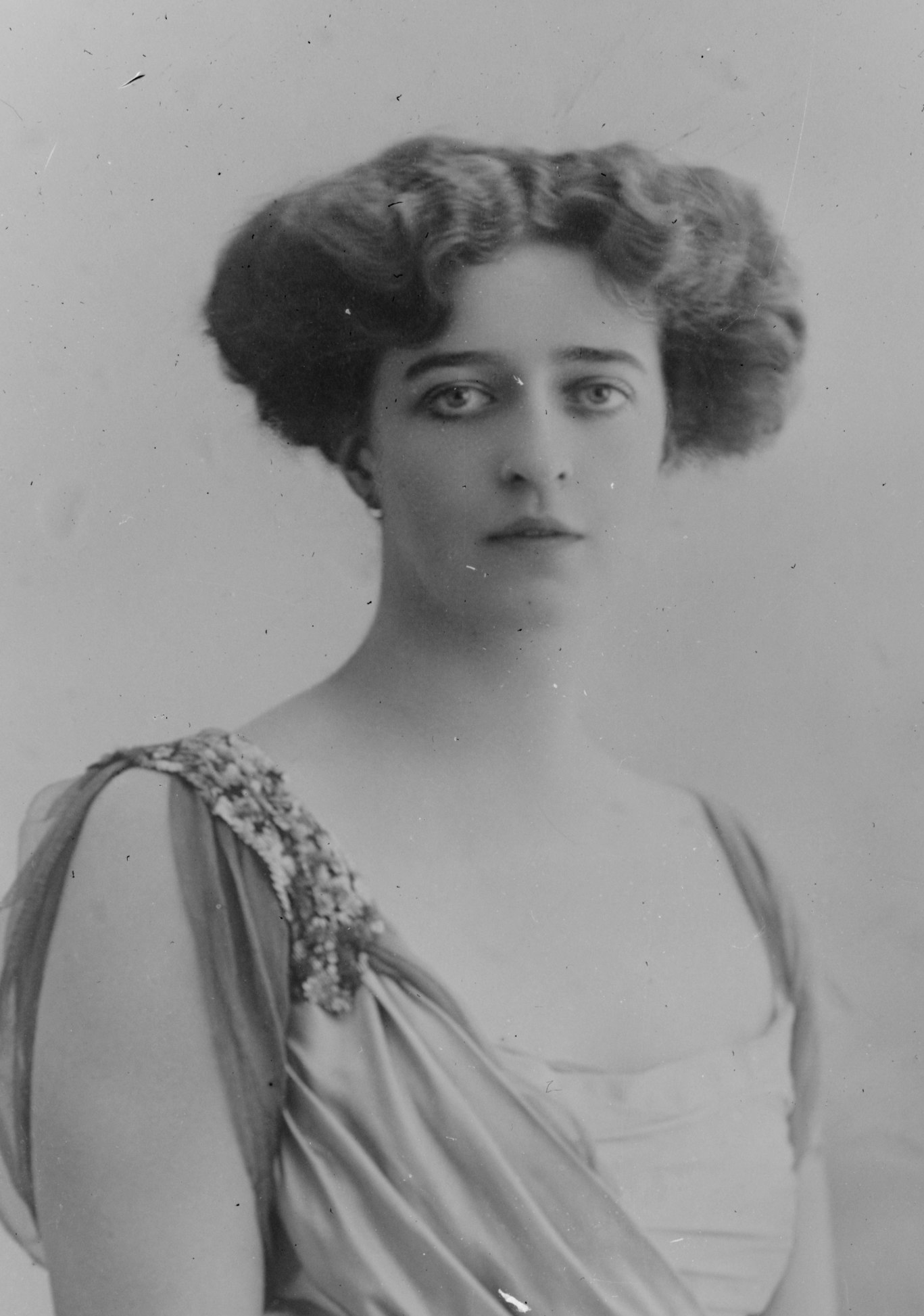 Title: Kathleen Pelham Burns, cameo portrait Abstract/medium: 1 negative : glass ; 5 x 7 in. or smaller.